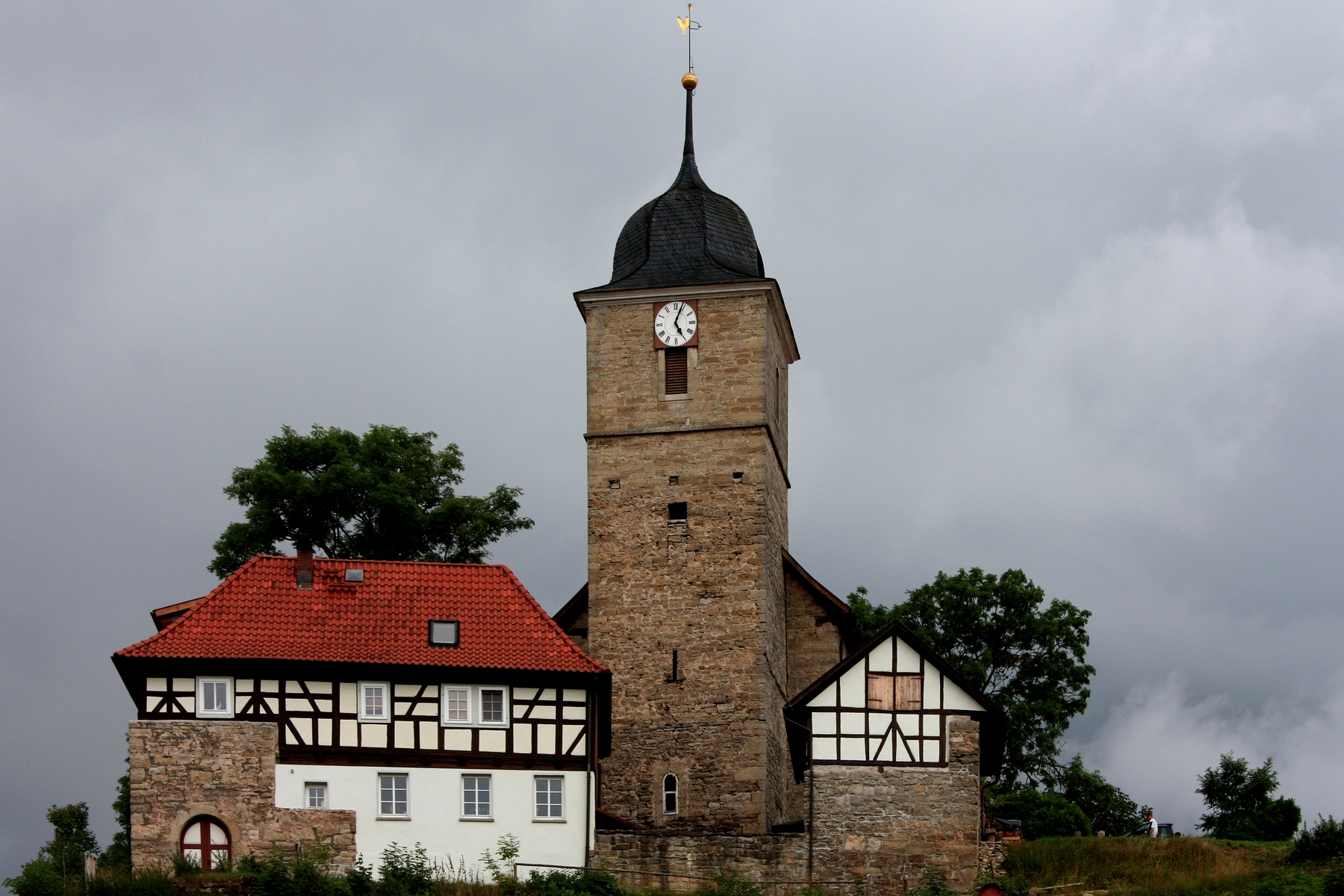 Village Church Utendorf